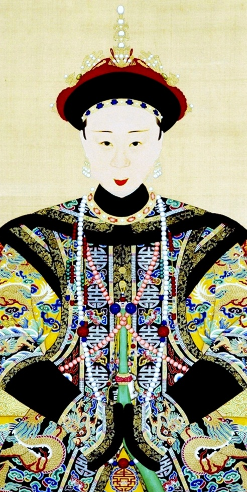 Empress Xiaojing, a consort of Emperor Daoguang of the Qing dynasty